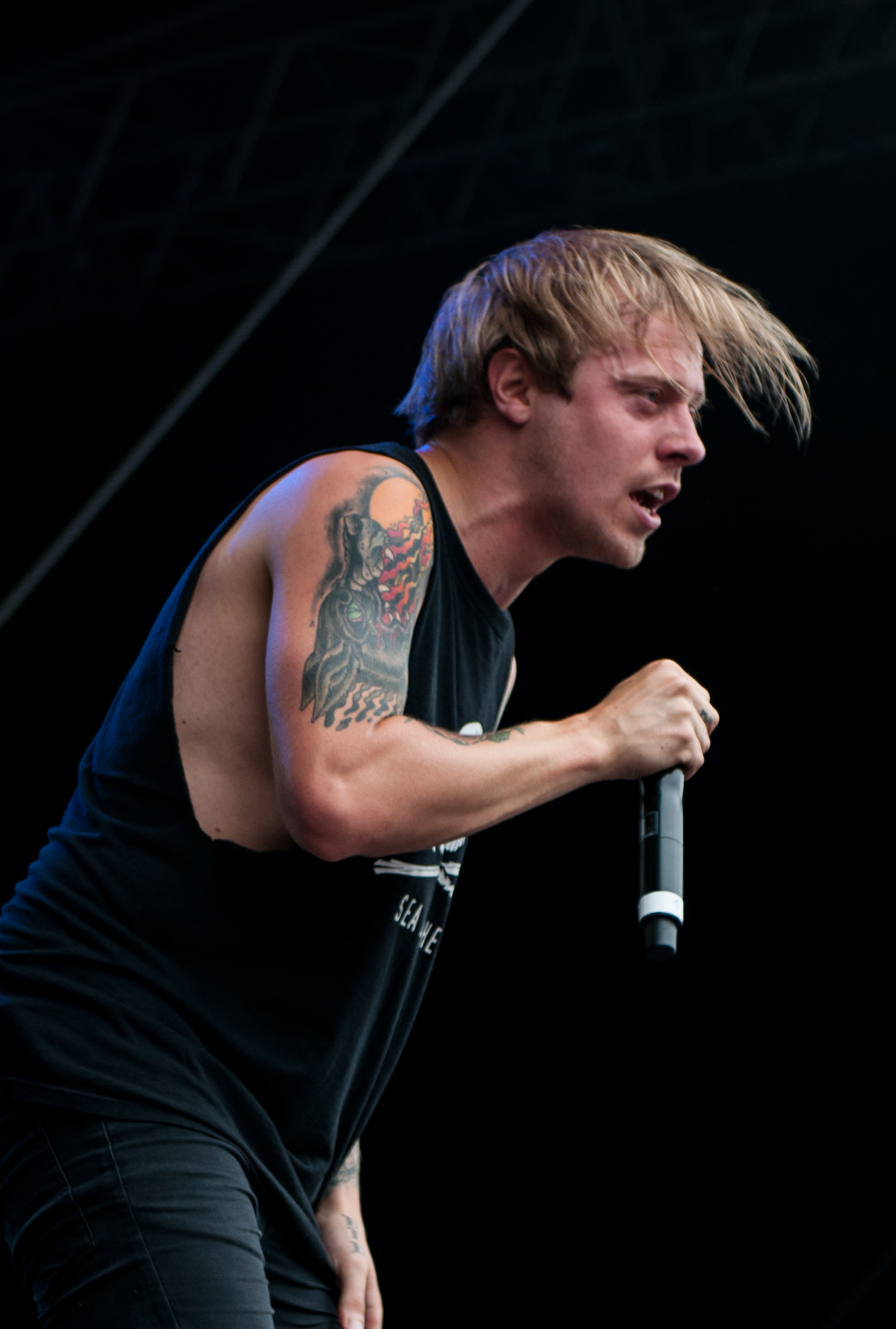 Architects at Vainstream Rockfest 2014